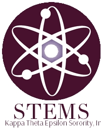 The official logo of the Kappa Theta Epsilon Sorority Science, Technology, Engineering and Math Student Support Program.